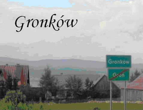 Gronków - village near Nowy Targ, Poland